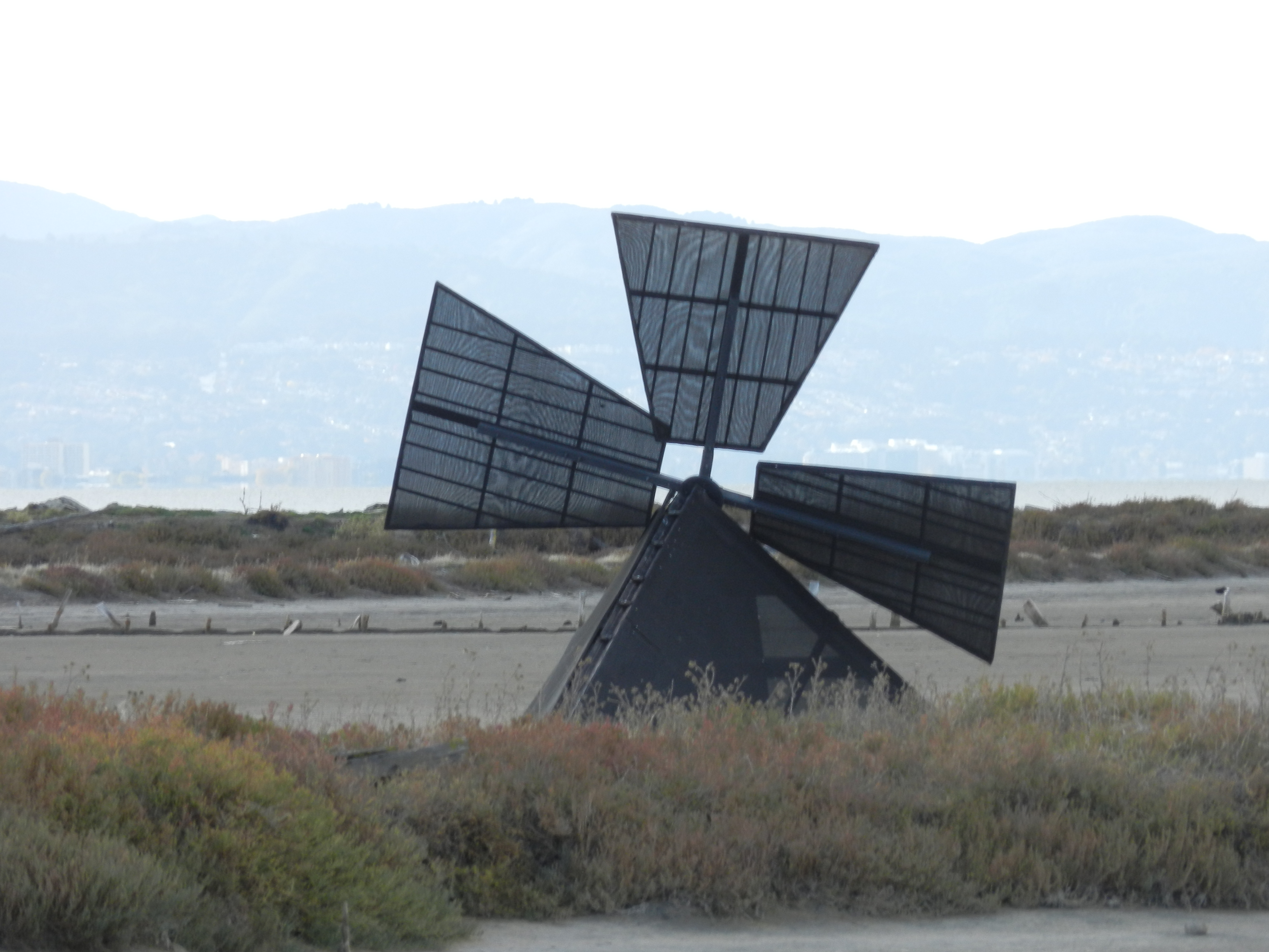 Archimedes screw for pumping water, salt marsh, near Hayward Shoreline Interpretive Center building, adjacent to highway 92, Hayward, California